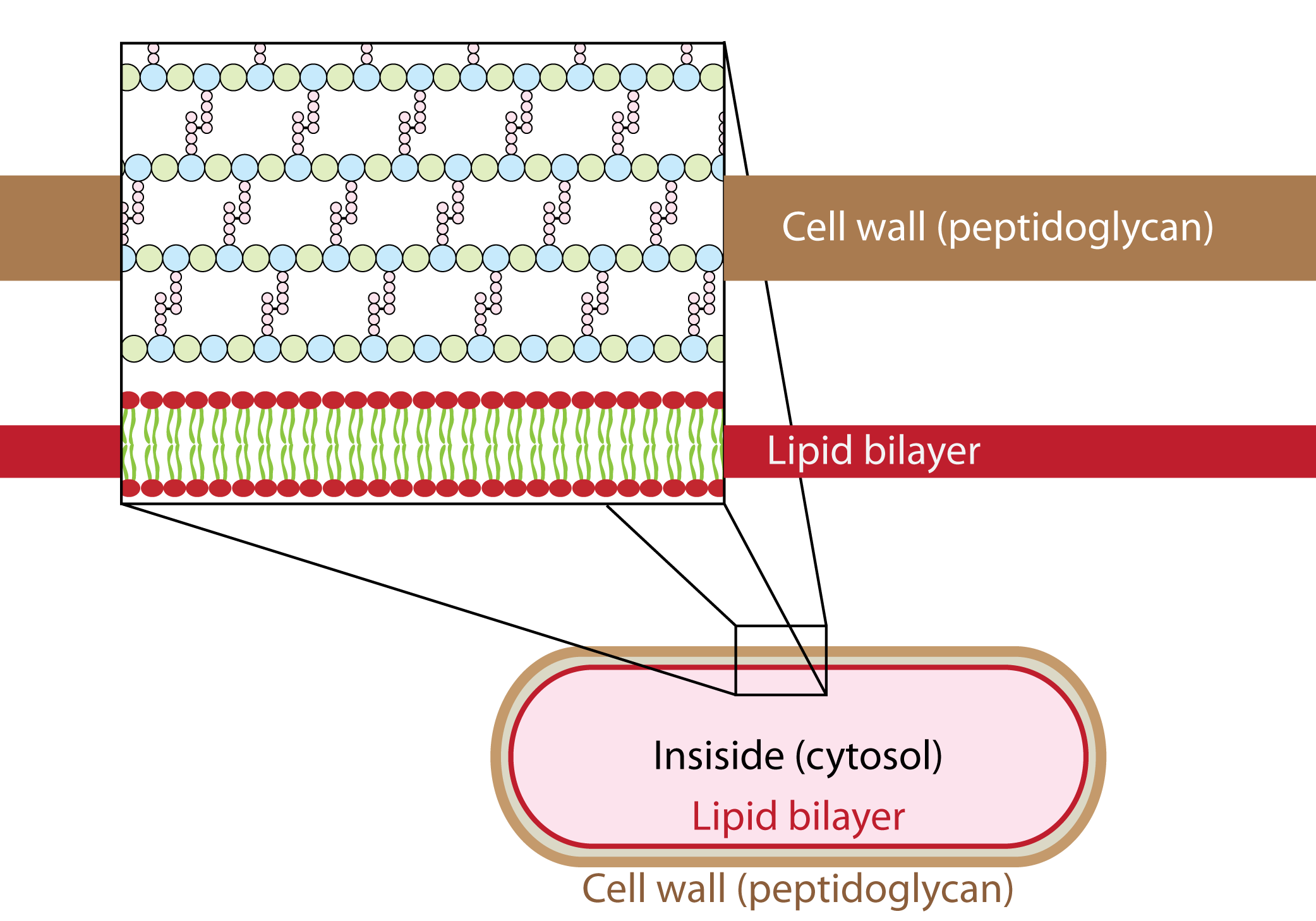 Peptidoglycan and lipid bilayer